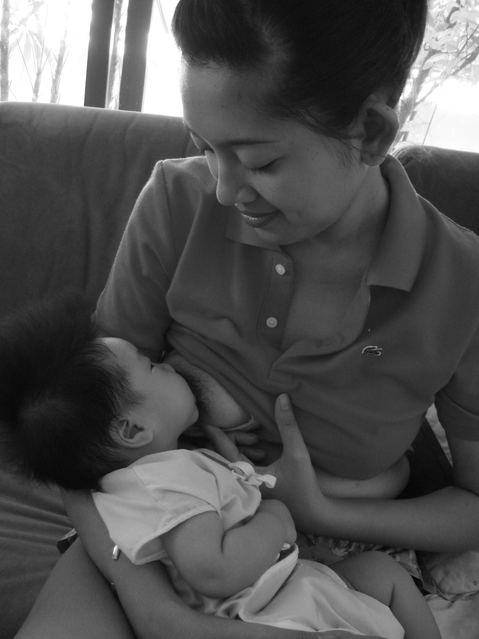 i like the way she is smiling with her baby - connection between mom and daugther :) She is my sister, someone told me she looks alike me a lot someone said "this is you! feeding your daughter" hahaha